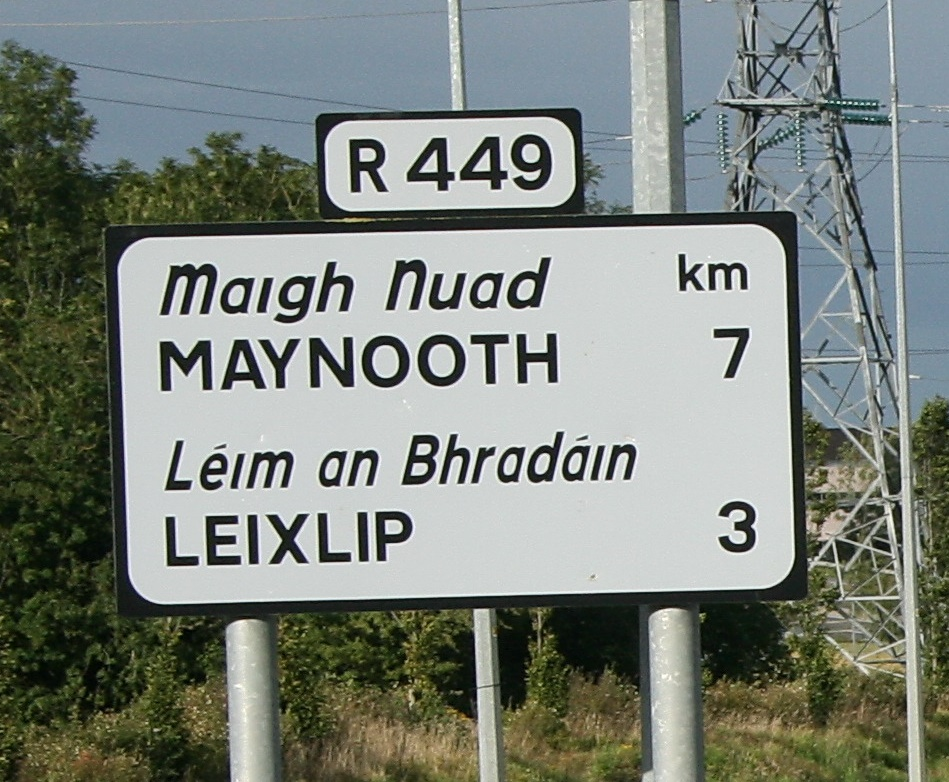 Regional Route road sign in Ireland